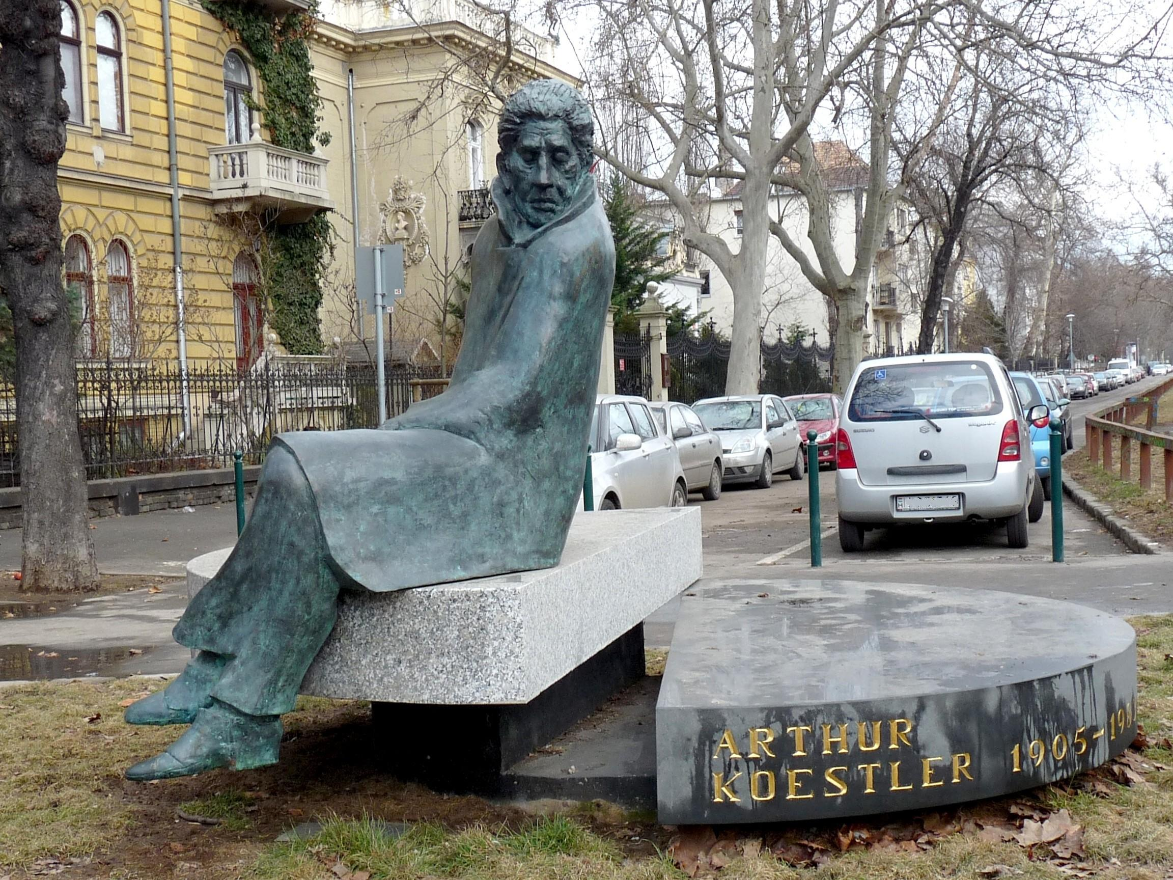 Statue of Arthur Koestler (1905-1983) Hungarian-born writer, journalist and polymath. The life-size bronze statue sculpted by Imre Varga was unveiled on October 20, 2009. (Budapest, District VI, Városligeti Allee Nr 2).